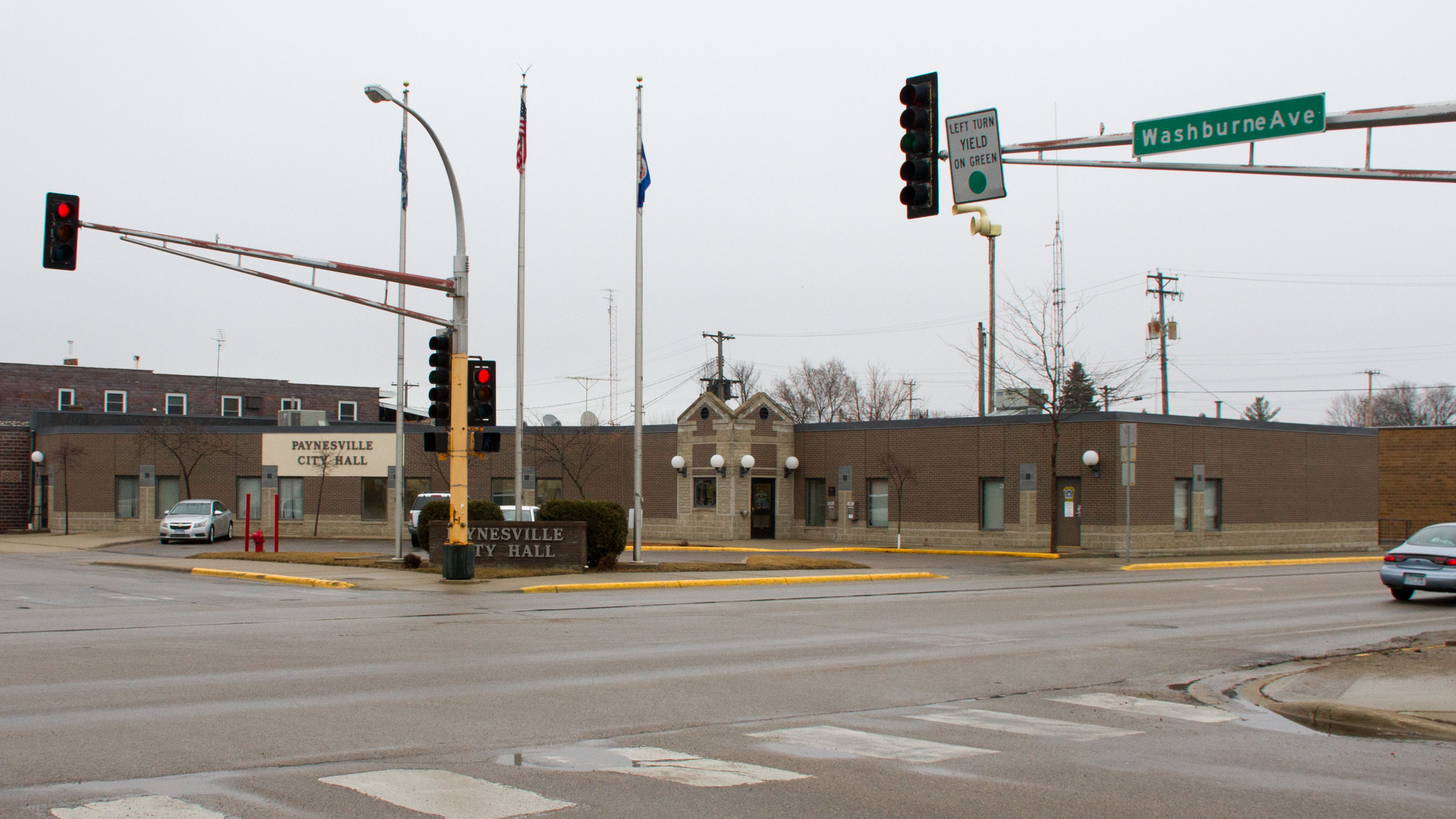 Paynesville City Hall, Paynesville, Minnesota, USA.